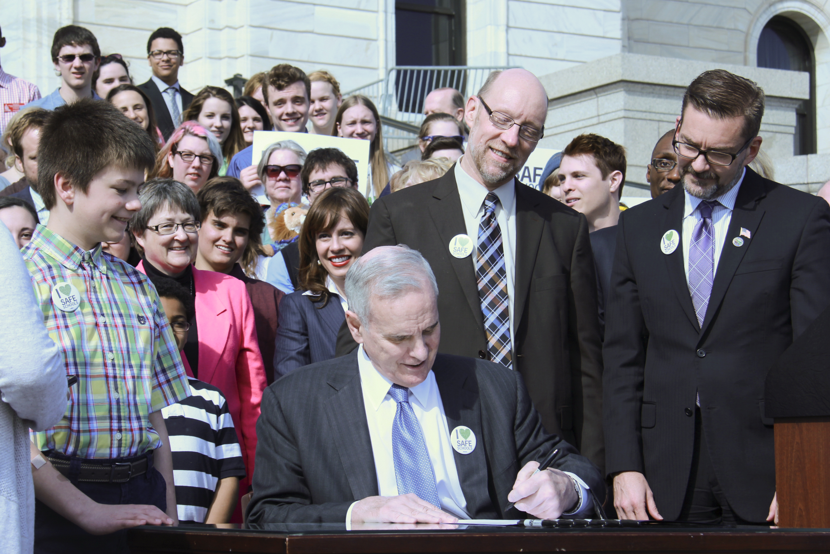 Safe & Supportive Schools Bill Signing